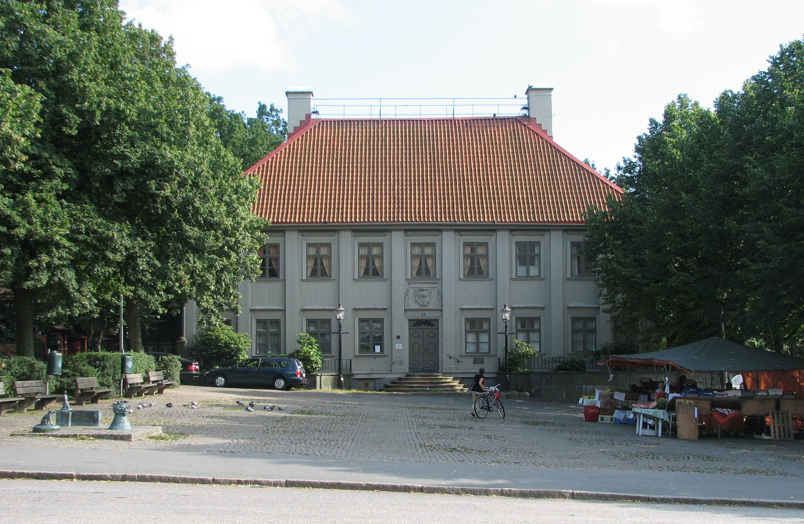 The old house "Gathenhielmska huset" in Göteborg, Sweden. View direction SSO.